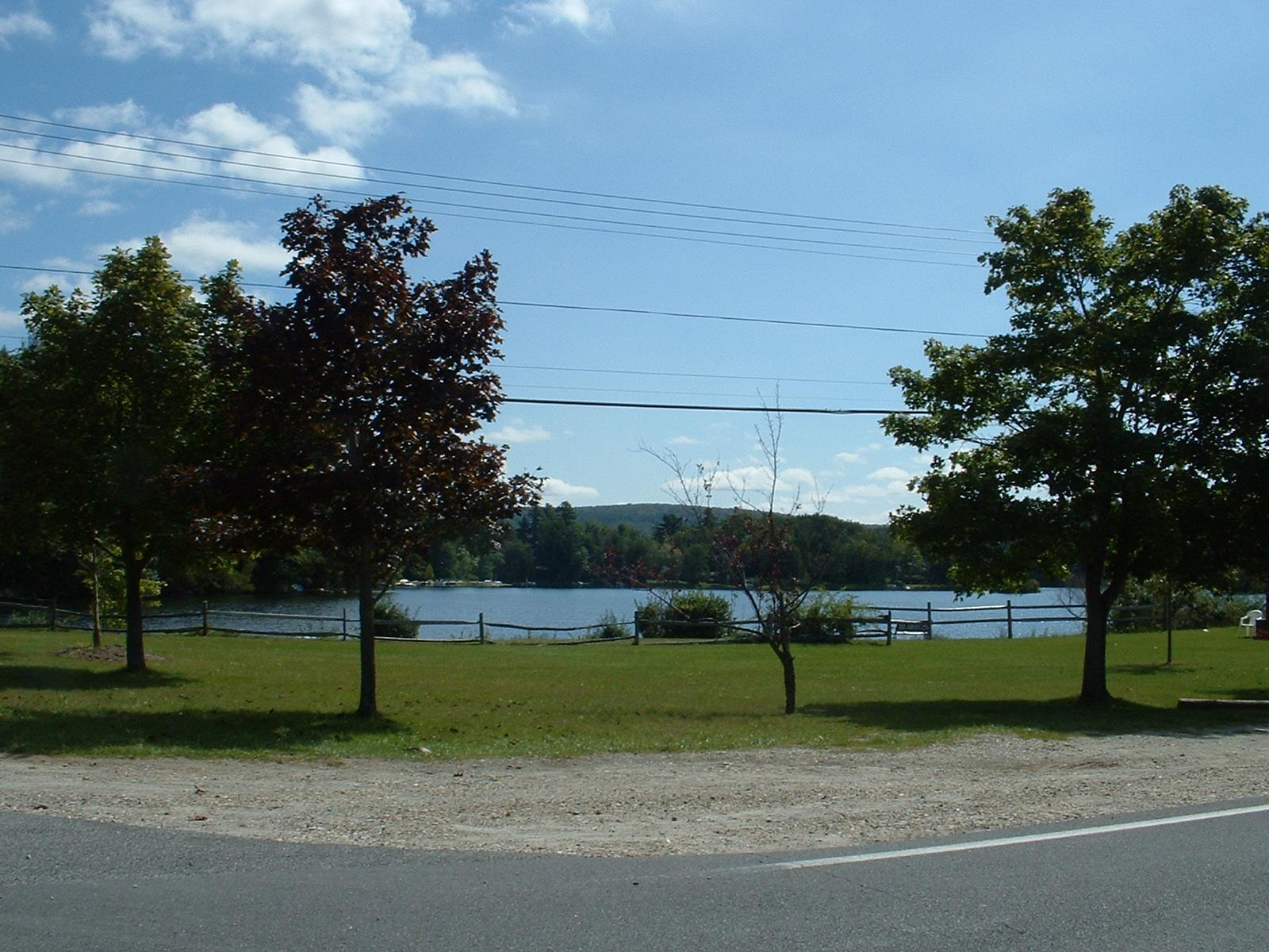 Lake Garfield, as seen from Tyringham Rd, Monterey, Massachusetts. Tyringham Rd & Sylvan Rd, Monterey, MA